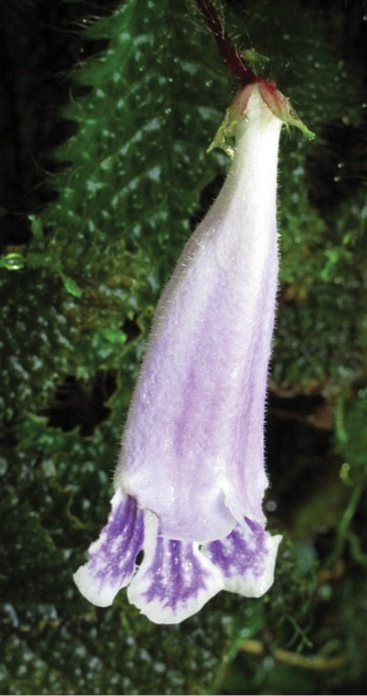 Ridleyandra chuana flower.